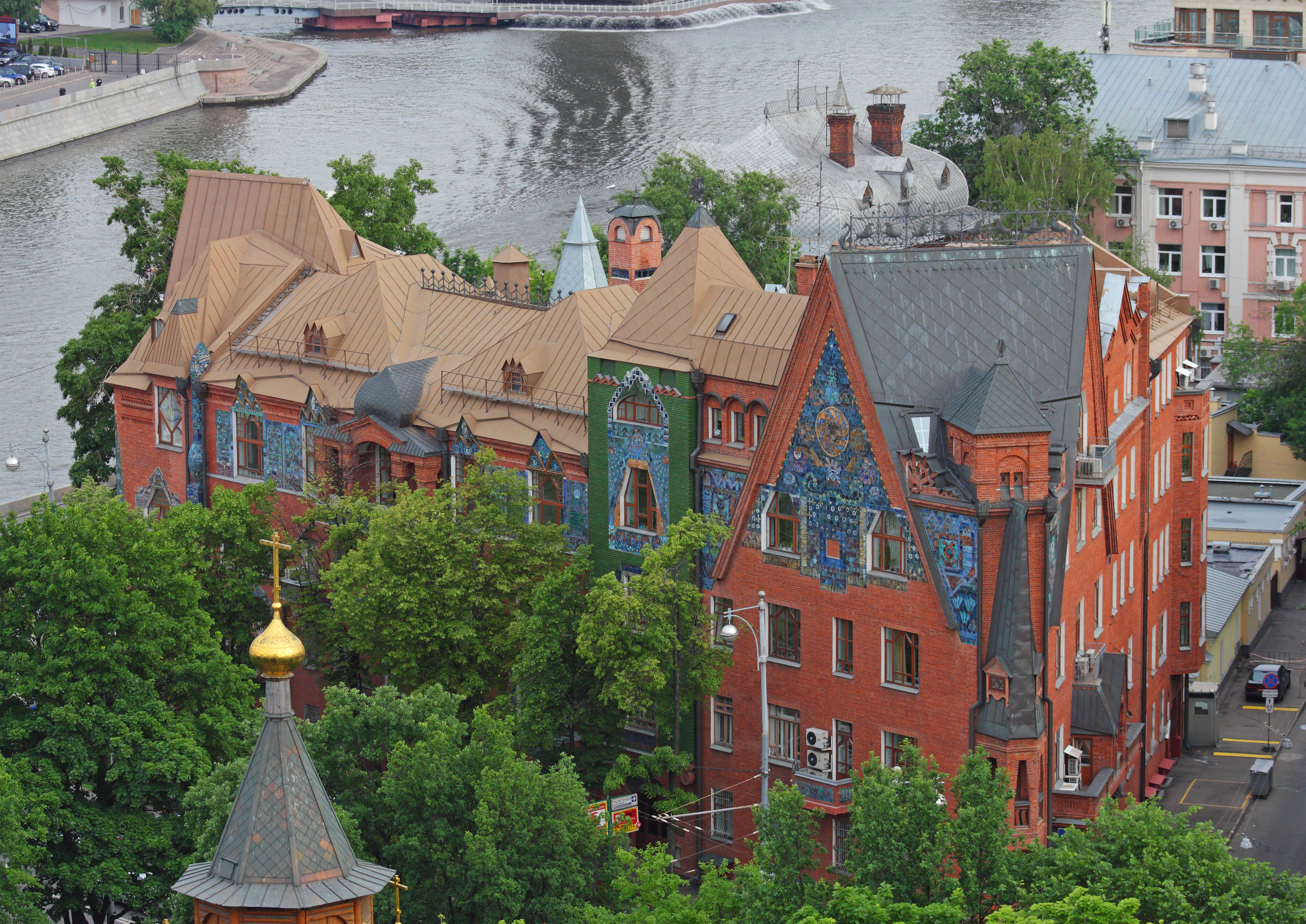 Moscow, Russia. Prechistenskaya Embankment. Pertsova House.